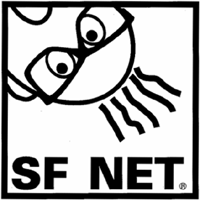 Early logo for SFnet Coffee House Network